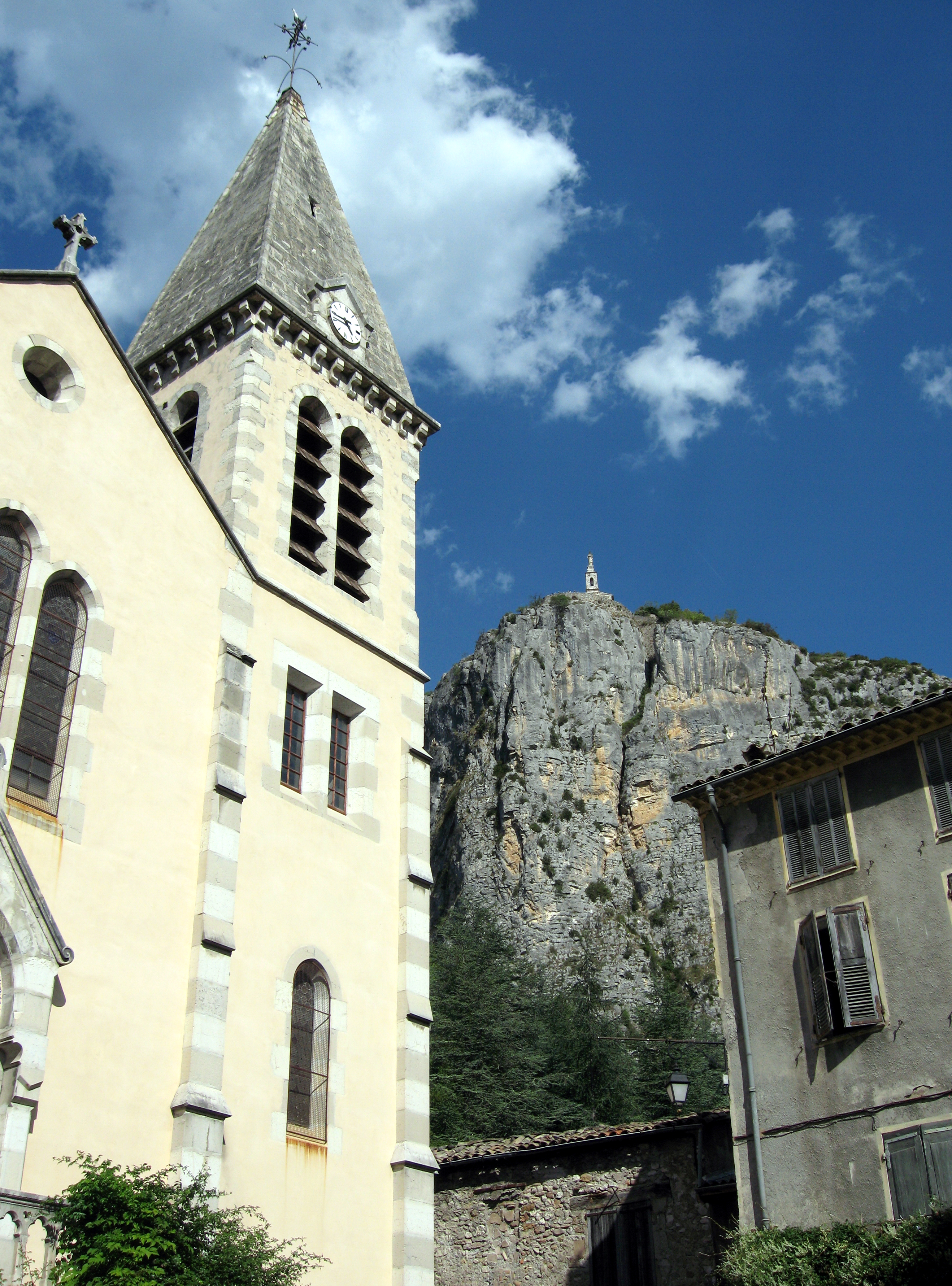 Castellane Notre Dame du Roc